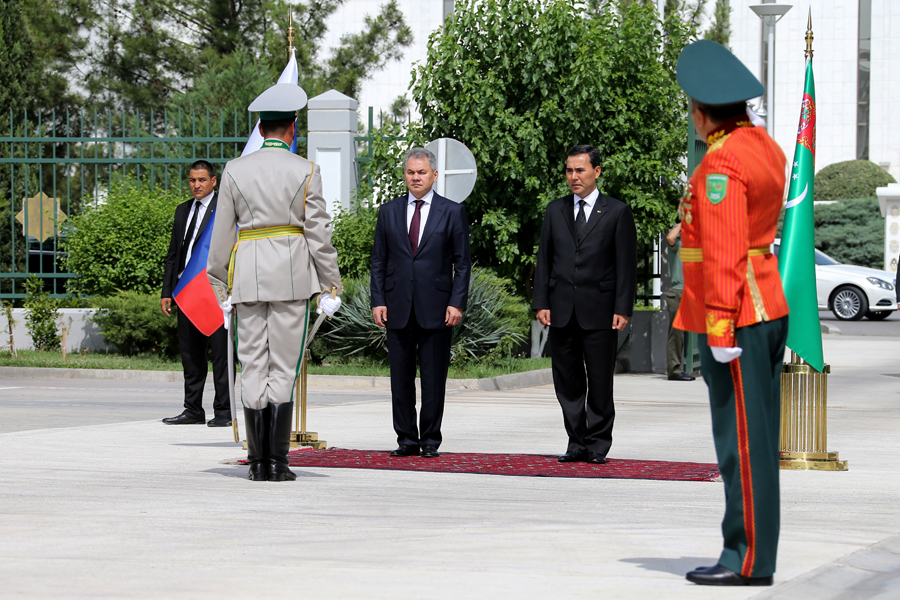 Turkmenistan Defense Minister Yaylym Berdiyev with Russian Defense Minister Sergei Shoigu.